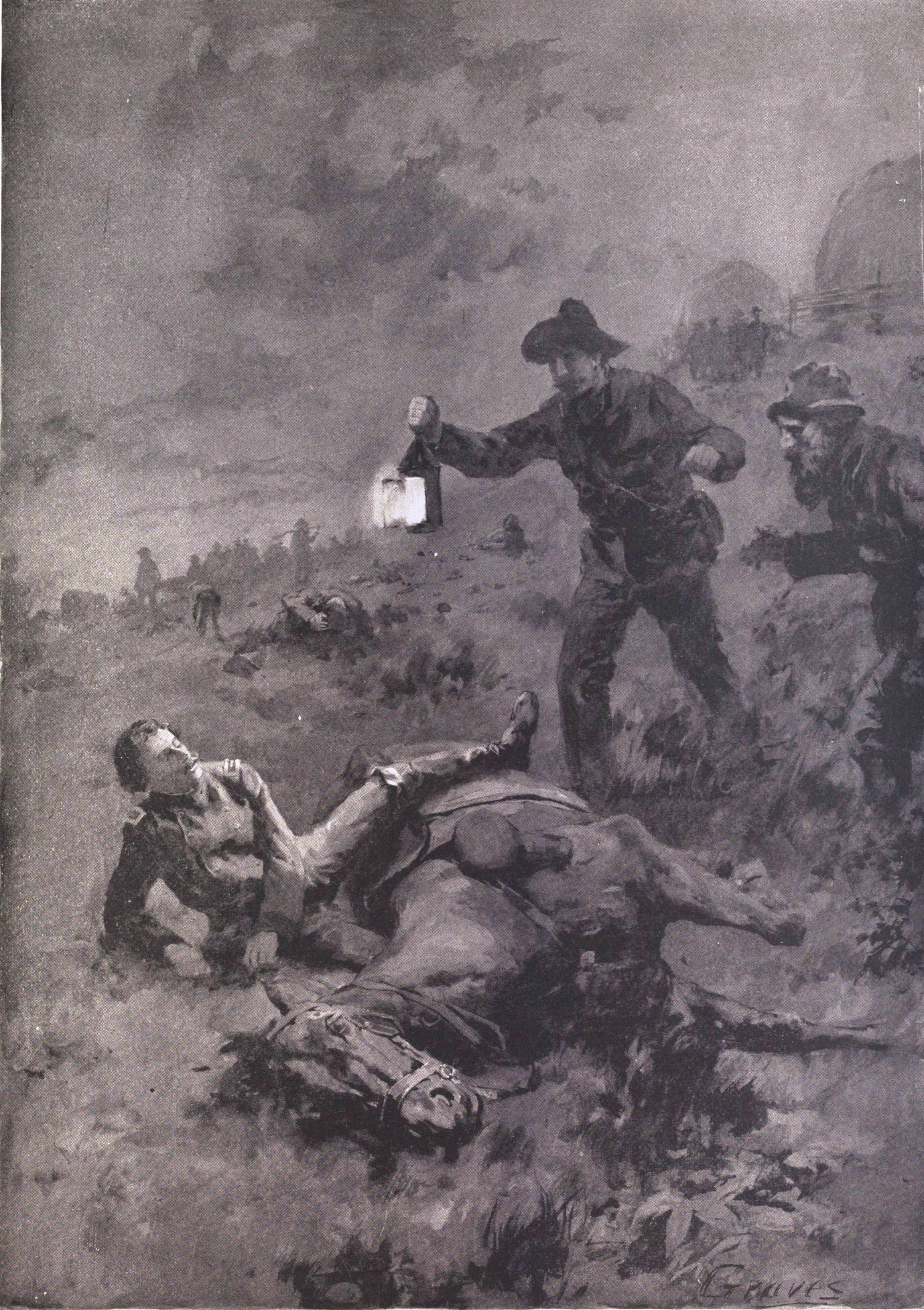 Illustration of the capture of Luigi P. di Cesnola, American Civil War Medal of Honor recipient, during the Battle of Aldie, from Deeds of valor; how America's heroes won the Medal of Honor, published in 1901.